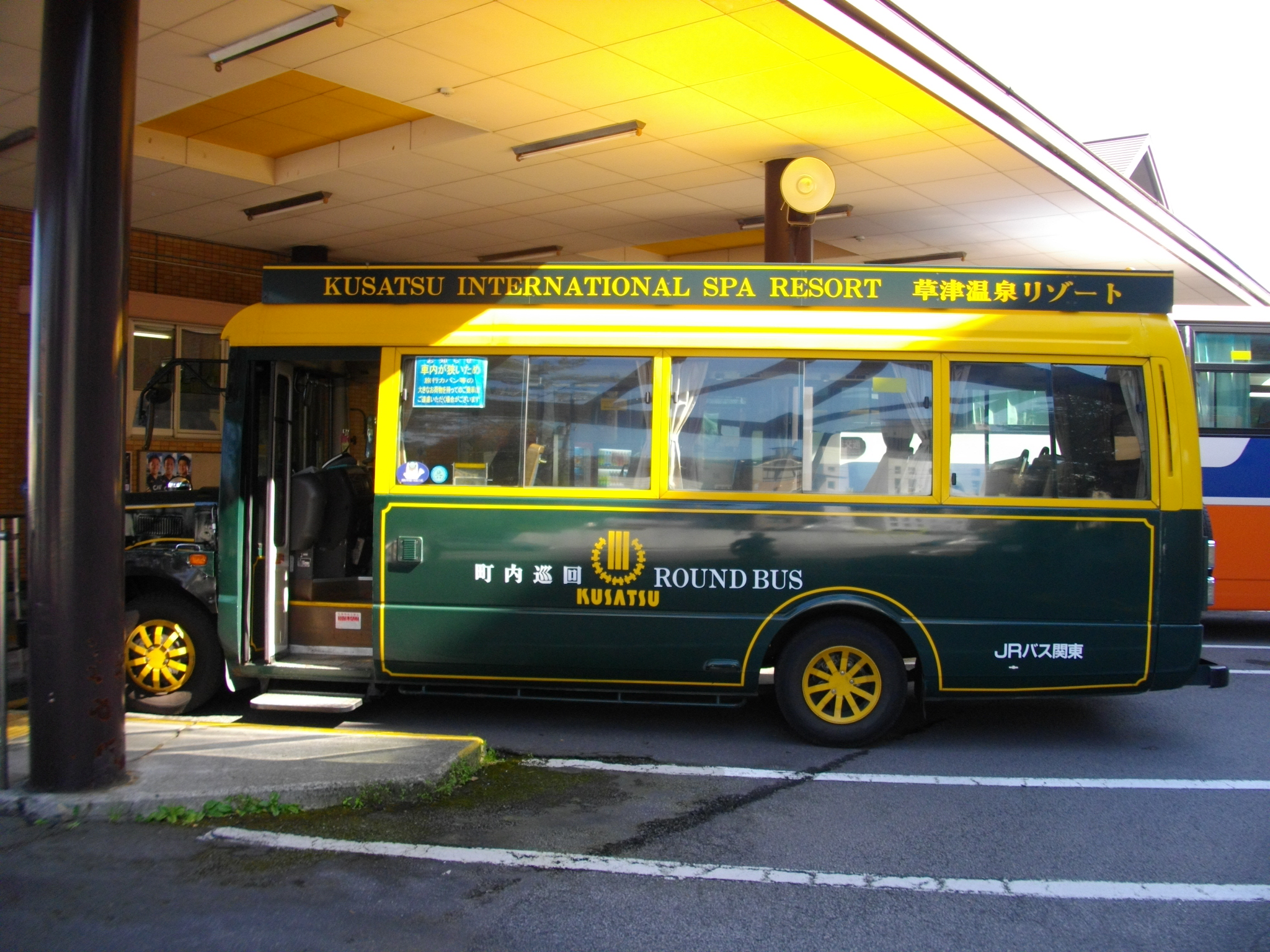 Kusatsu Loop Bus